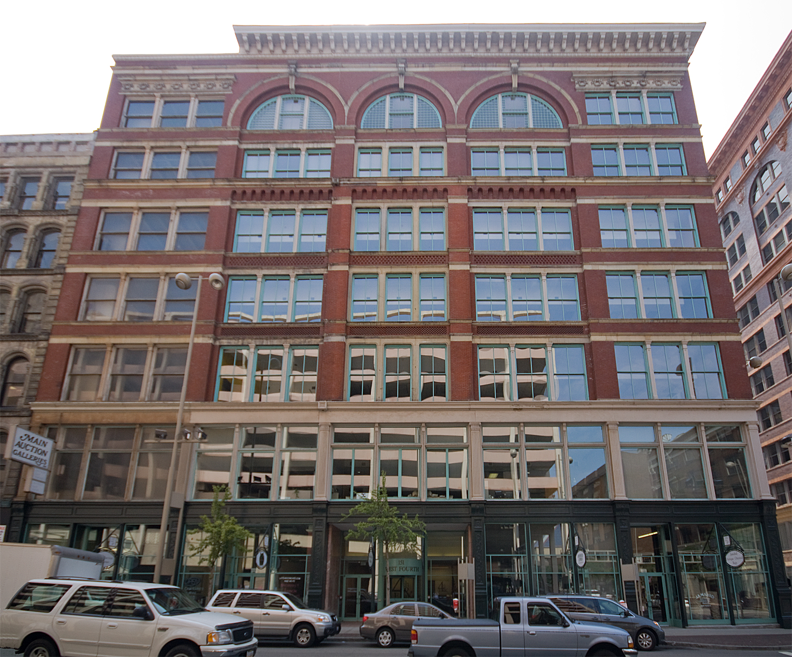 Hooper Building in Cincinnati, Oh. taken by Greg Hume